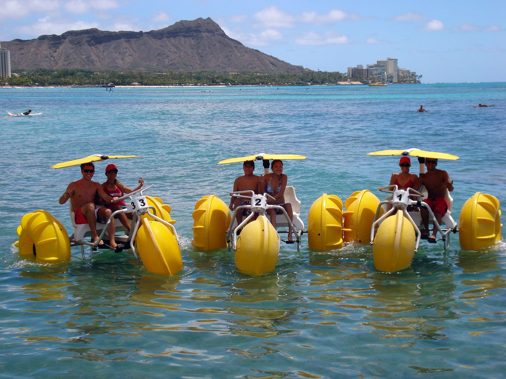 Human powered water tricycles in the Pacific Ocean with Diamond Head as the backdrop.